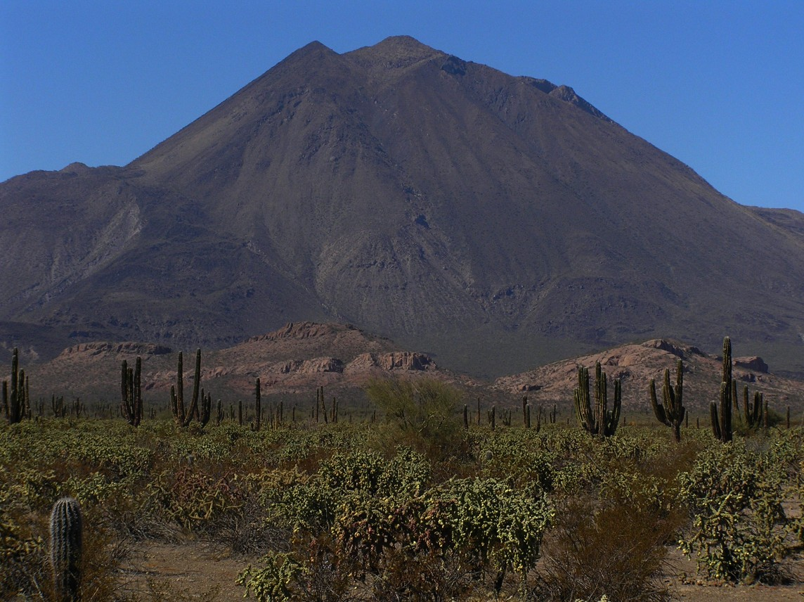 El Virgen volcano, of the Tres Virgenes complex of volcanoes on the Baja California Peninsula. Located in Mulegé Municipality in the northern region of the state of Baja California Sur, México.